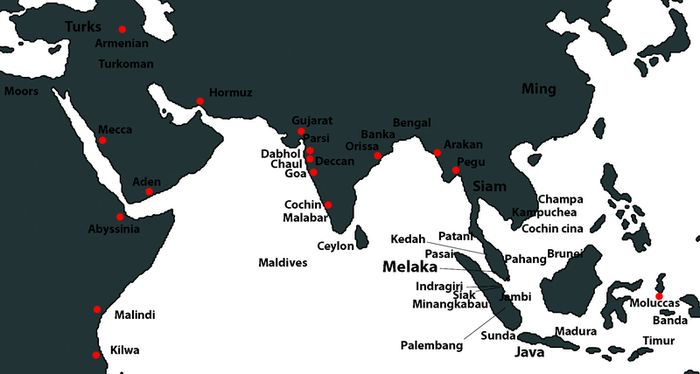 Map of 1400s Melacca - 80LangMap002.jpg